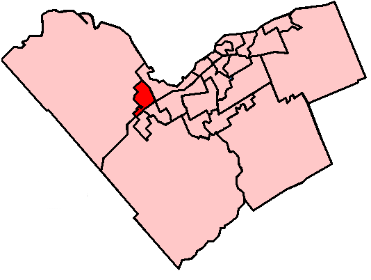 Map showing Kanata North Ward